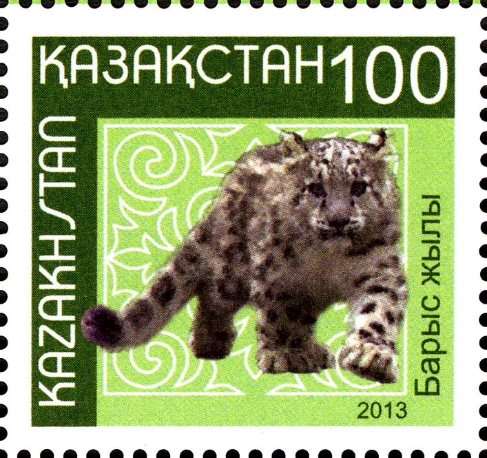 Oriental Calendar